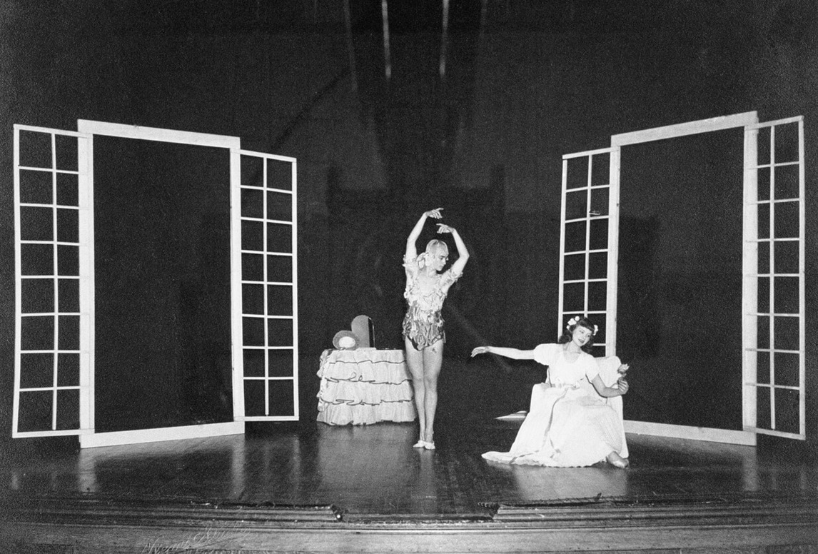 Françoise Sullivan and Pierre Gauvreau, l’École de danse Gérald Crevier 1940s